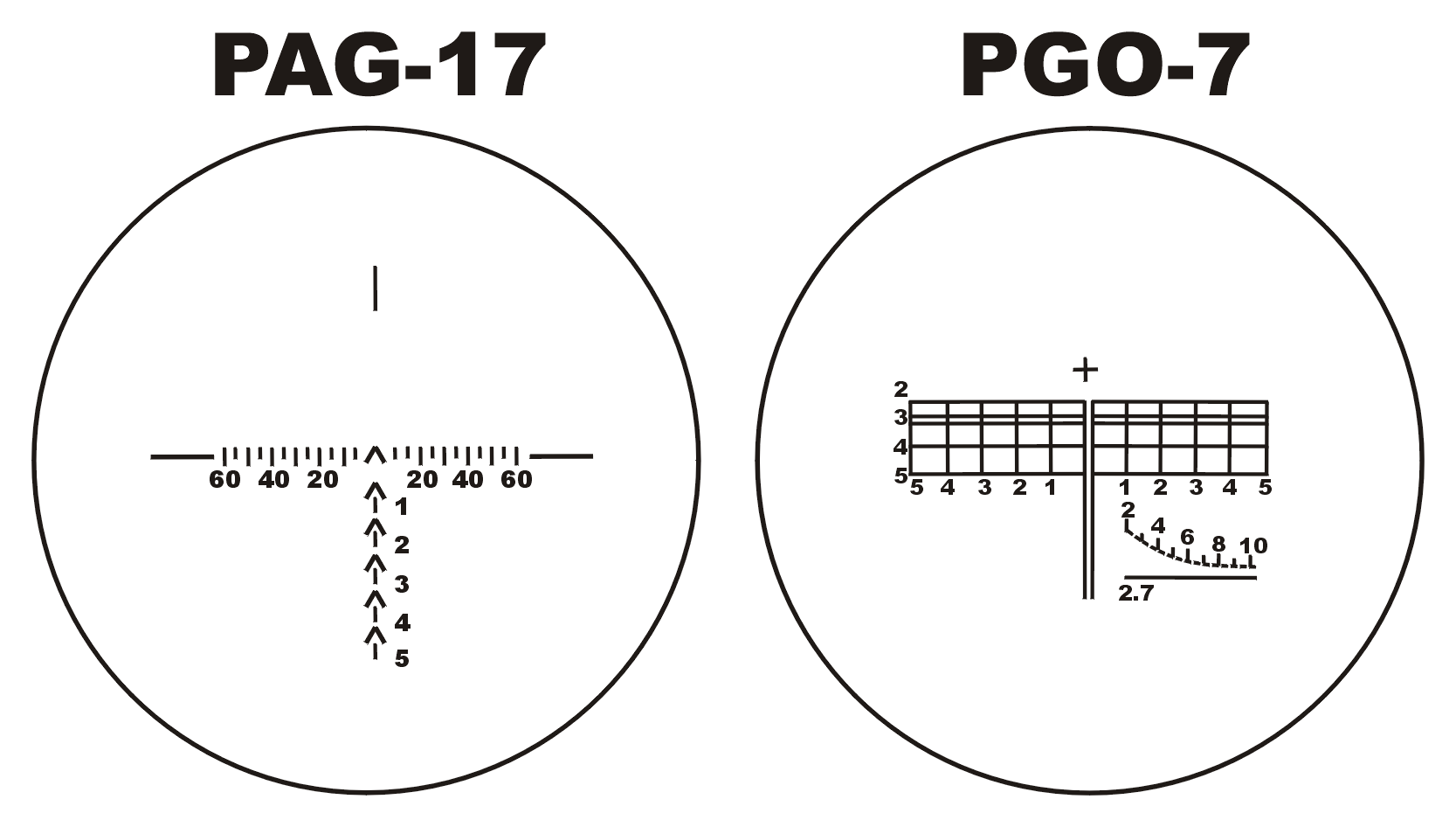 PAG-17 and PGO-7 Reticle Scheme